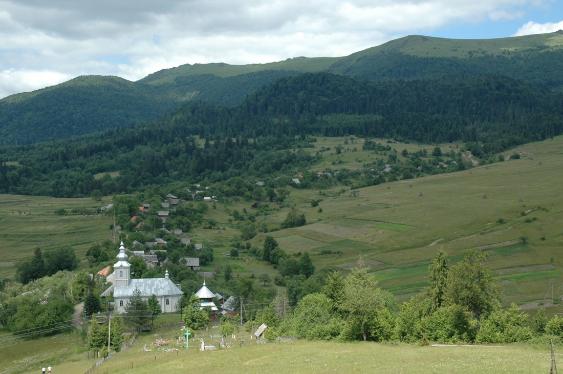 Panoramic view of Shcherbovets